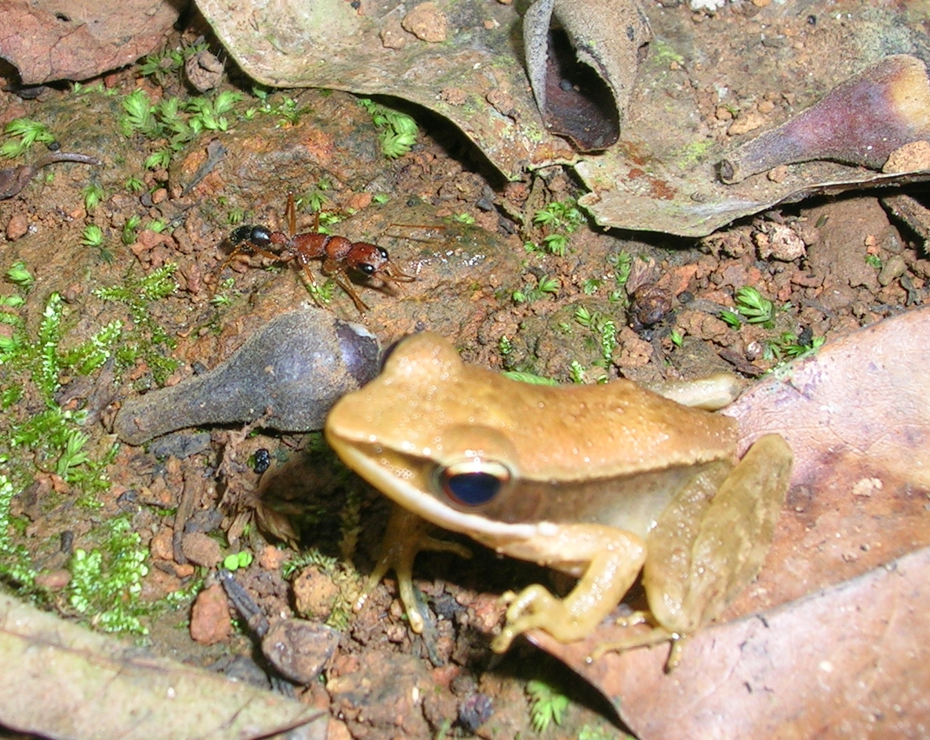 Harpegnathos saltator next to a Rana temporalis, Wayanad, Kerala